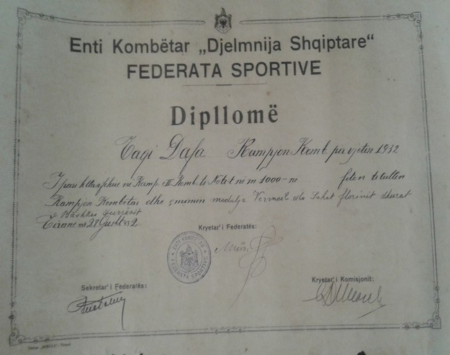 1000 m viti 1932 (2)